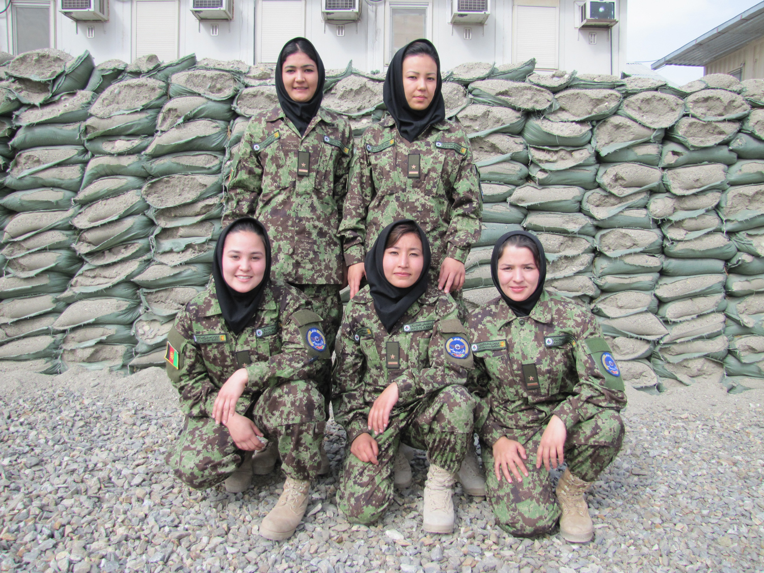 Five newly commissioned female Afghan Lieutenants pose for a group shot at the Afghan Air Force base in Kabul on October 14, 2010. (Mass Communications Specialist First Class Elizabeth Burke/RELEASED).